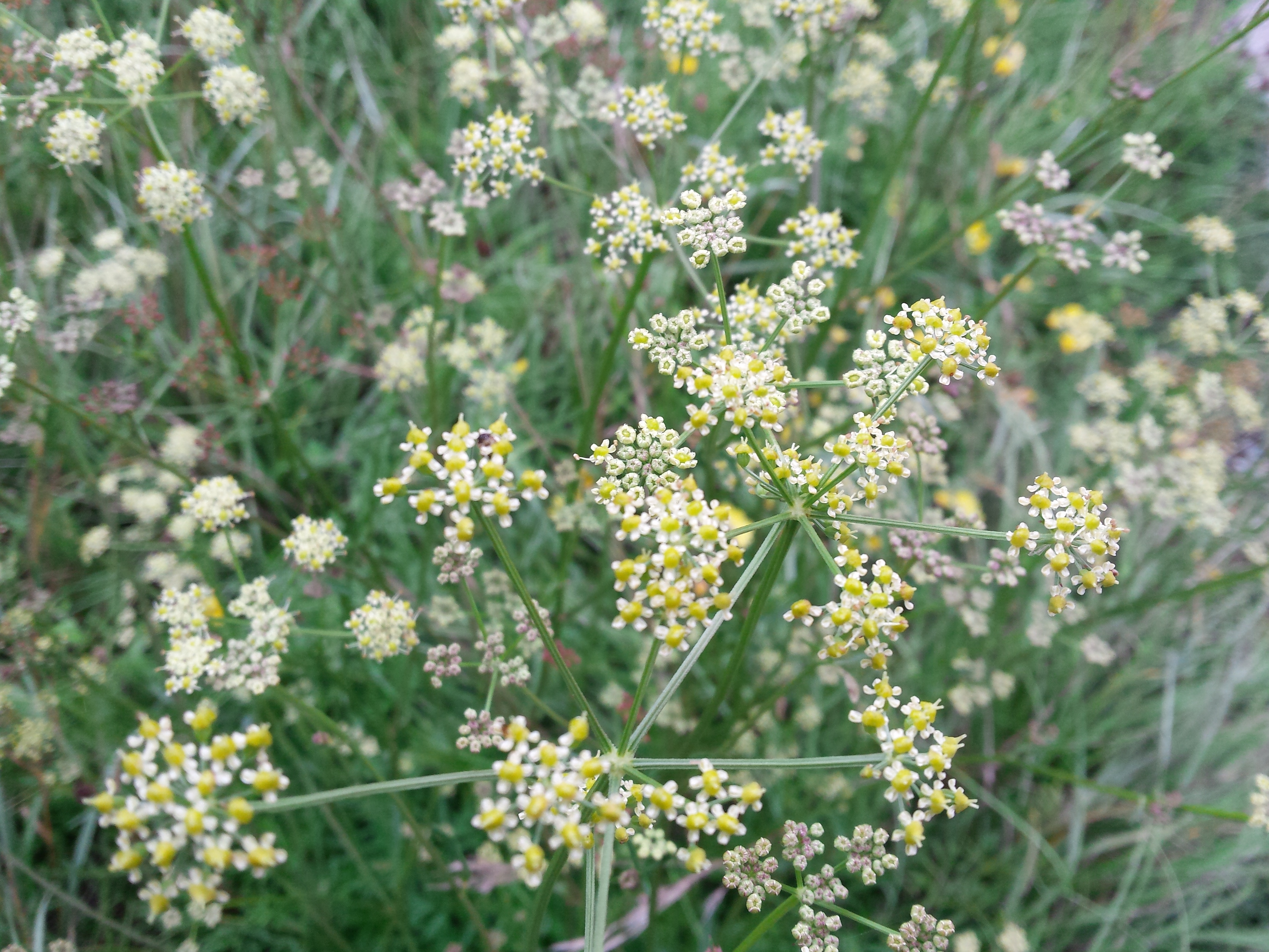 caraway milk parsley